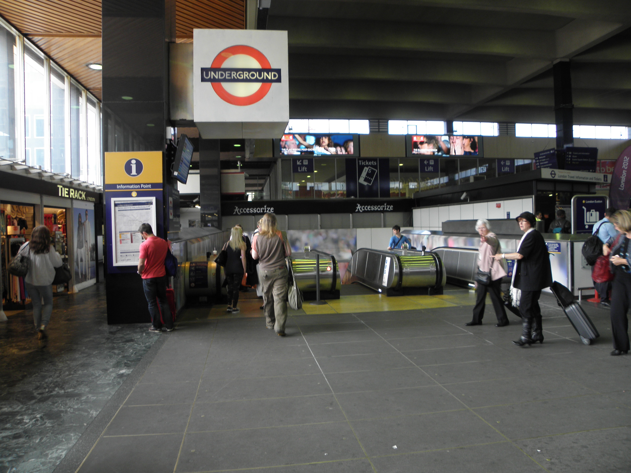 Euston tube station southern entrance, accessible from main line concourse.